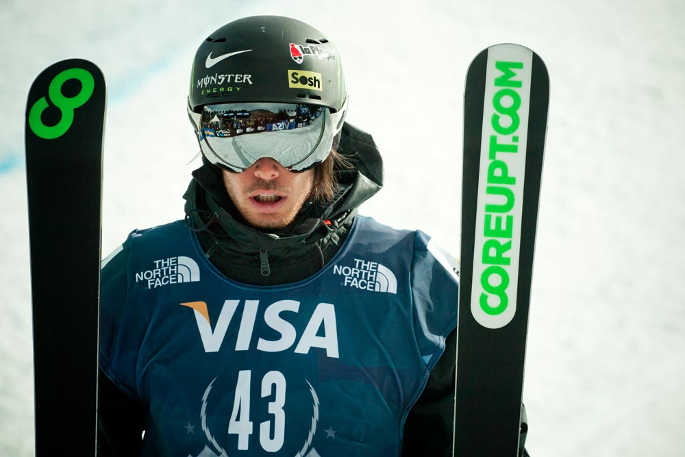 In Copper Mountain, the French shot by Louis Garnier ended 2nd of the 1st round of the 2013-2014 World Cup season.